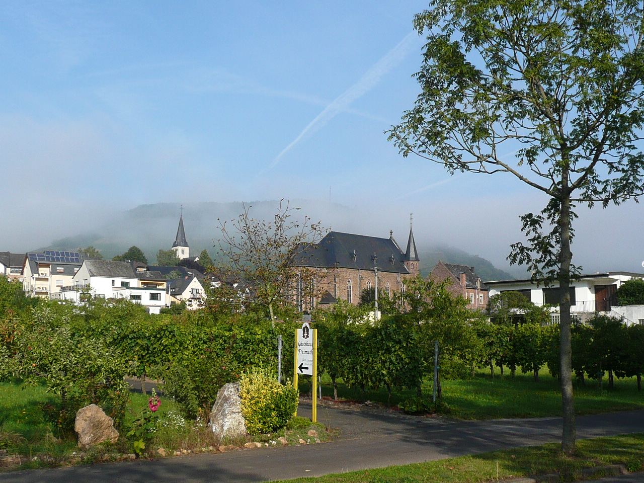 Ellenz village, in a September morning, Mosel River at km 61. Vineyard Altarberg in background.